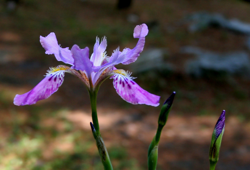 Iris milesii in Kullu District of Himachal Pradesh, India.